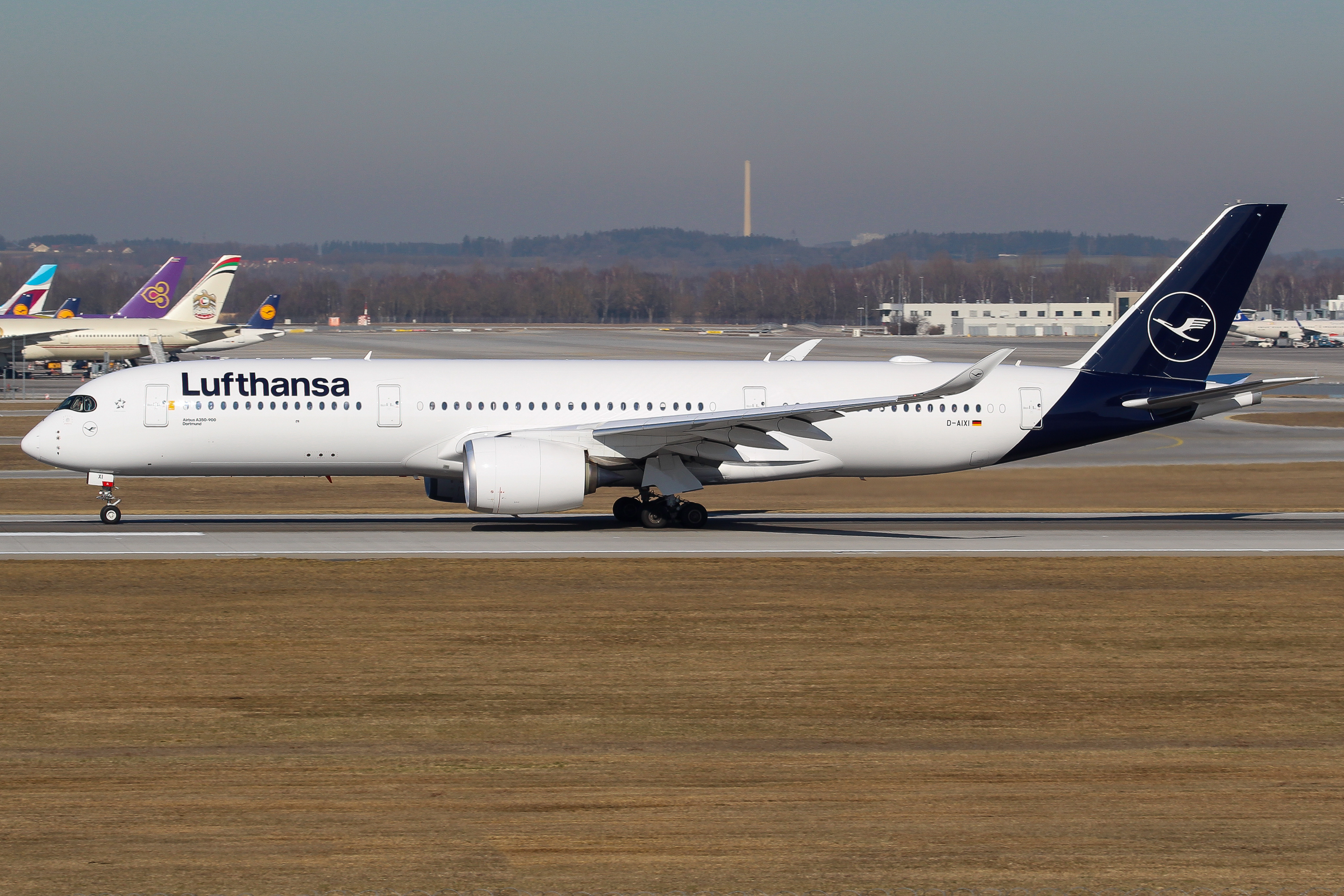 Lufthansa Airbus A350 during takeoff at Munich airport.